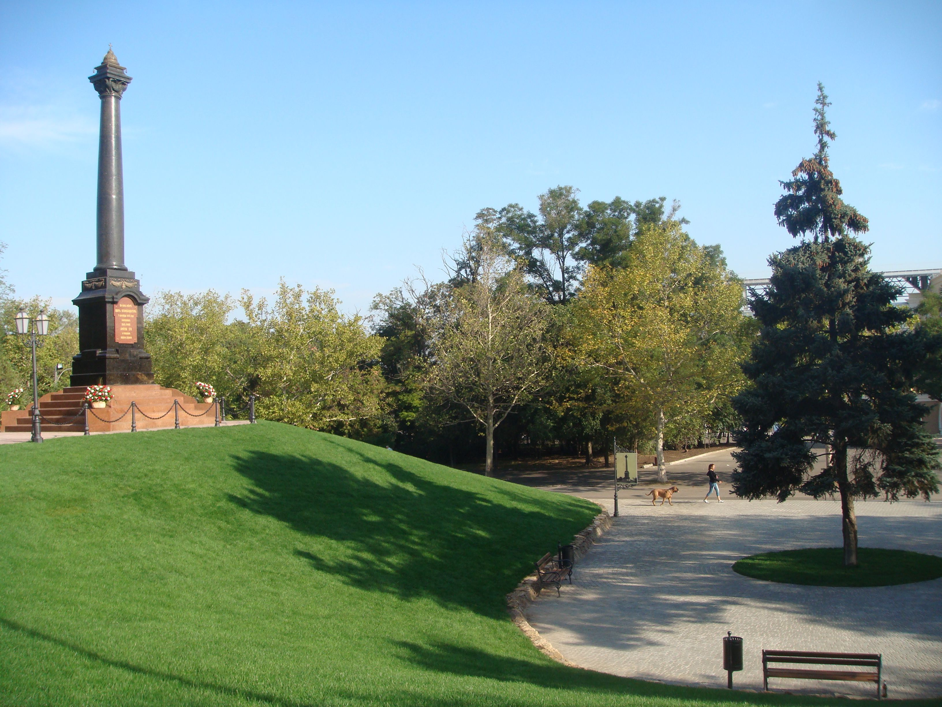 View of Alexander II colomn in Odessa after restoration in 2012. Tall spuce tree on the right of the picture is located at the same place where oak tree was planted by Alexander II in 1875